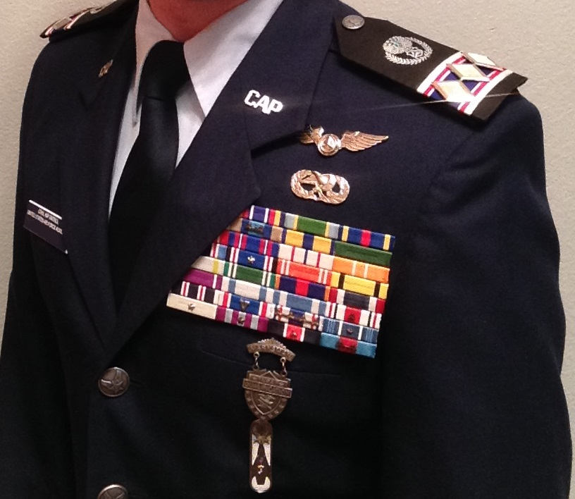 A Civil Air Patrol Cadet Colonel wearing the Air Force style service dress uniform with all earned awards and decorations. Members wear ribbons over the left breast and various medals or badges over or under the ribbons respectively, with some exceptions for placement of badges on the female uniform. Senior Officers and cadets in the National Guard or Reserve may wear their earned awards and decorations from their service in any U.S. Military branch.